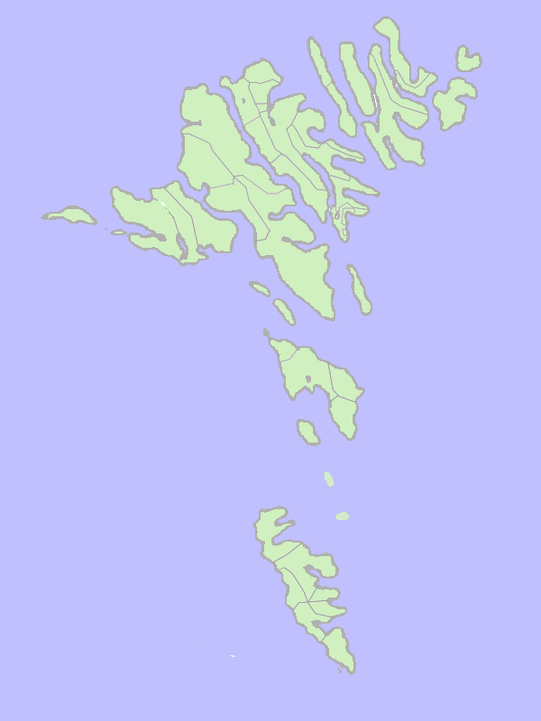 Map of the Faroe Islands for location maps